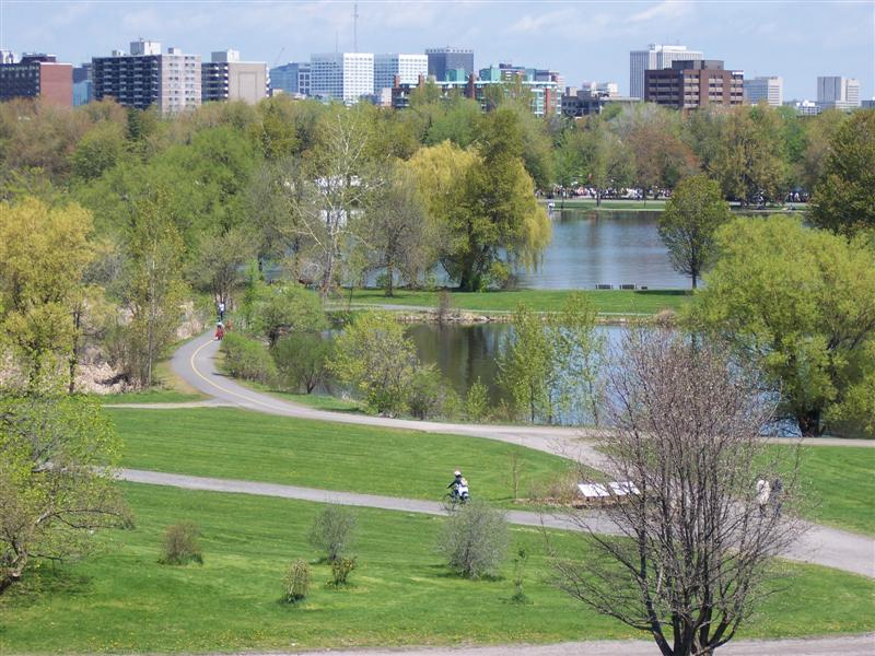 The Arboretum and view of Dow's Lake, Ottawa, Ontario